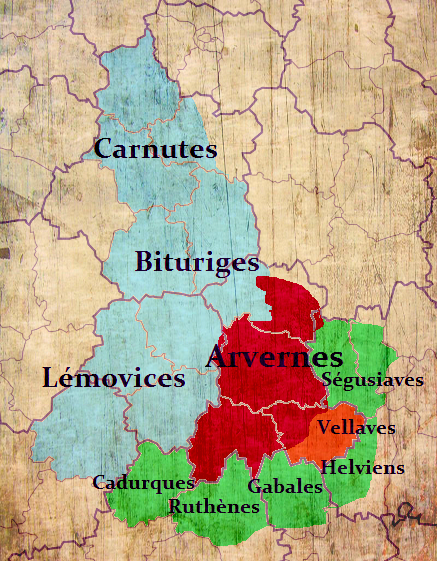 Arverni confederation. Confédération arverne : En rouge la cité des Arvernes (arvernie), en orange les Vellaves : peuple client des arvernes mais d'après Strabon ce sont des arvernes ayant fait sécession. En vert : les peuples clients, vassaux. En bleu : Les alliés des arvernes.